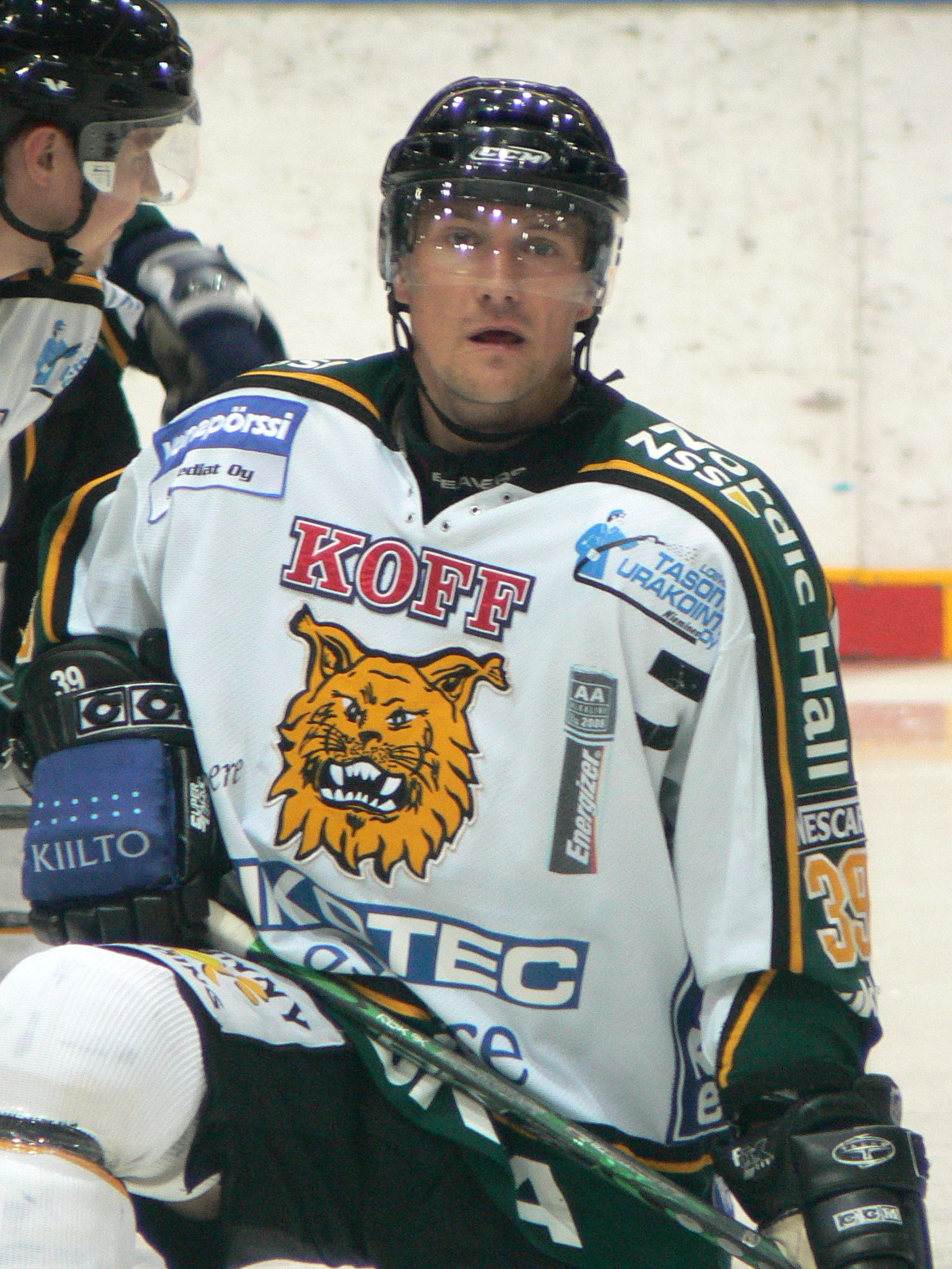 Finnish ice hockey winger Vesa Viitakoski playing for Ilves Tampere in the 2007 Tampere Cup.